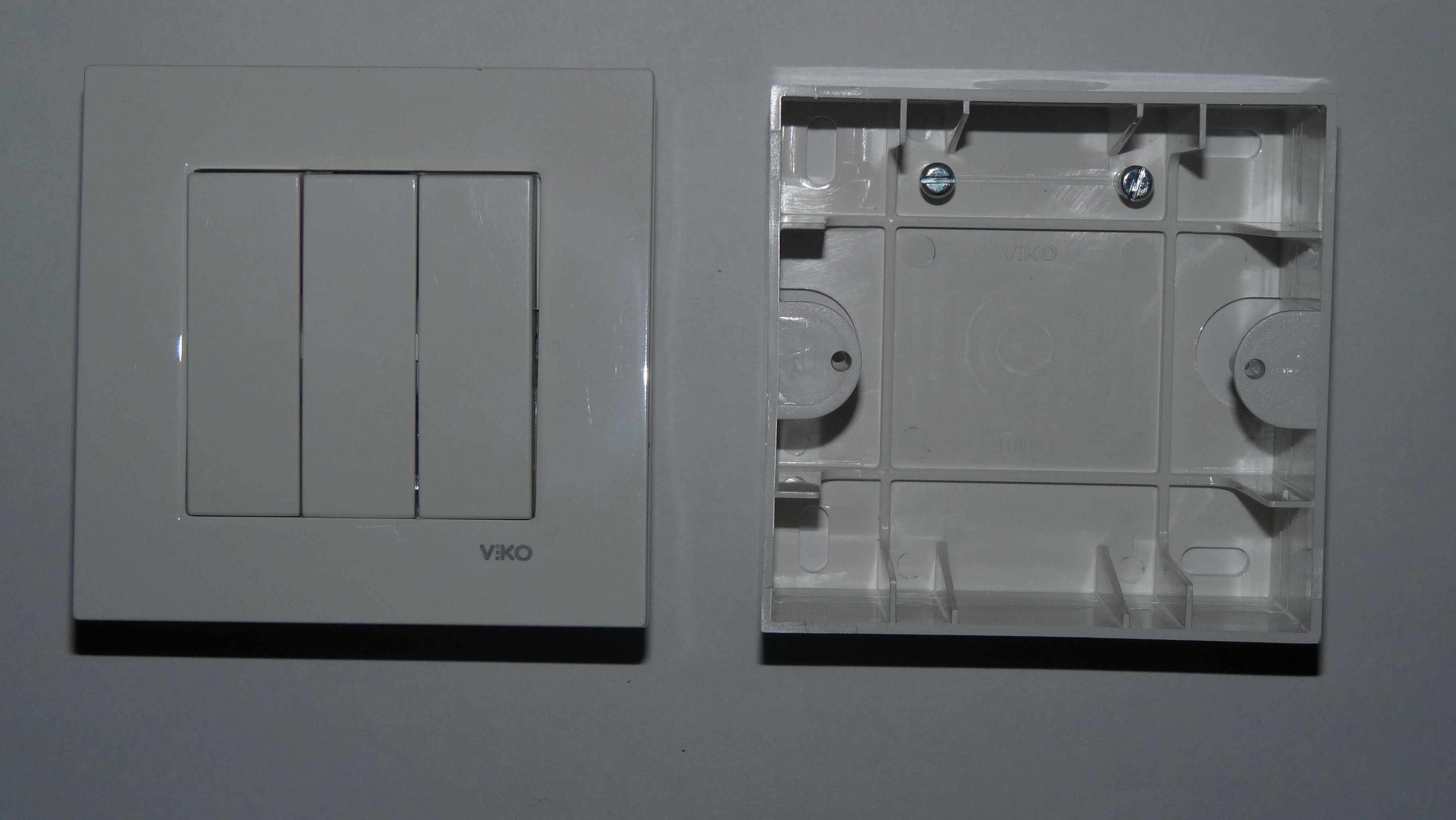 ψ-way light switch with fitting box. Thanks to this fitting box, this light switch might be used both in Europe and America.